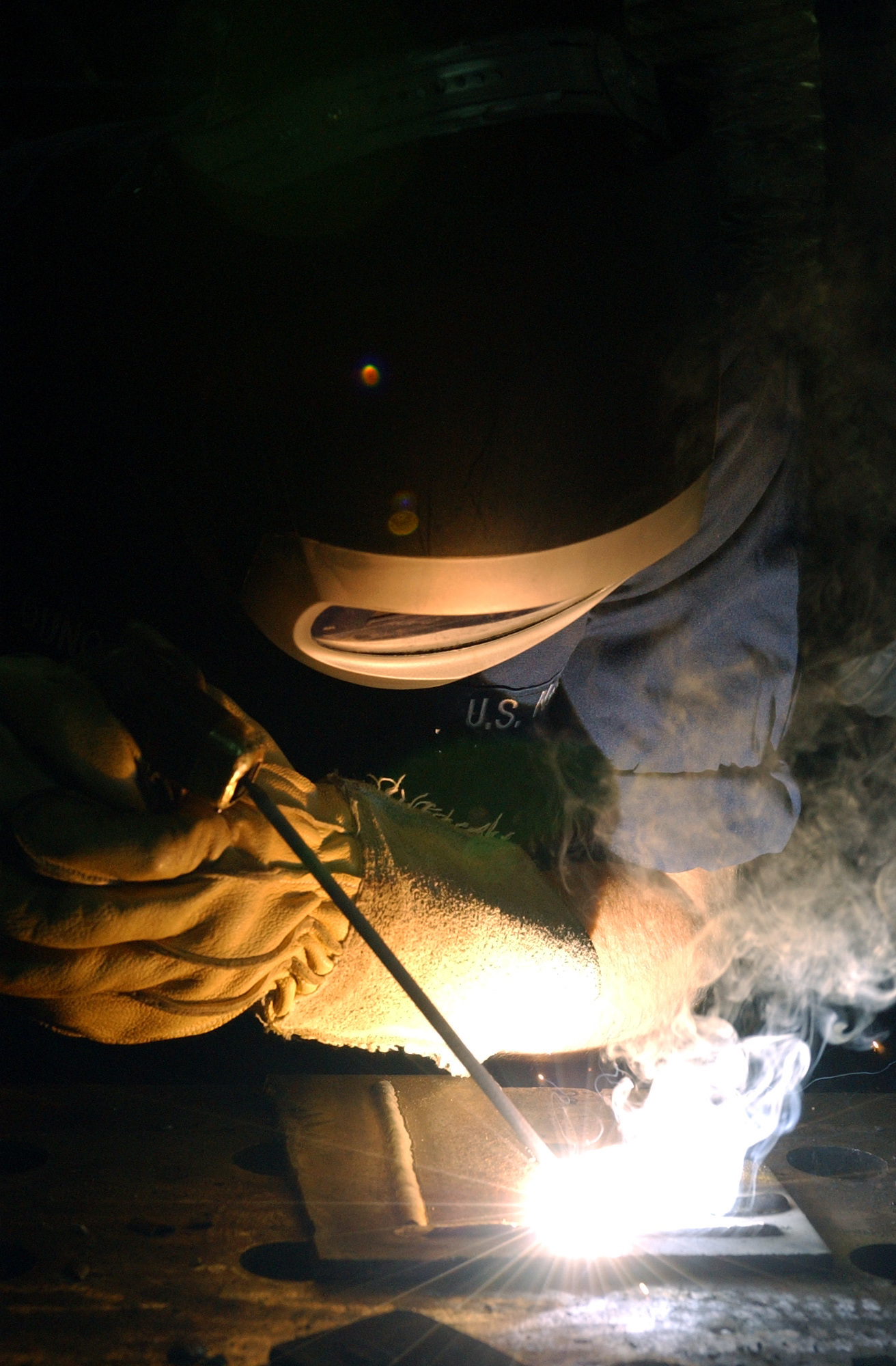 Pacific Ocean (May 30, 2005) - Hull Technician Fireman Derrick Young of San Rafael, Calif., practices welding techniques aboard the Nimitz class aircraft carrier USS Ronald Reagan (CVN 76). The nuclear powered ship is currently underway conducting routine carrier operations. U.S. Navy photo by Photographer's Mate Airman Zachariah A. C. Hinds (RELEASED)